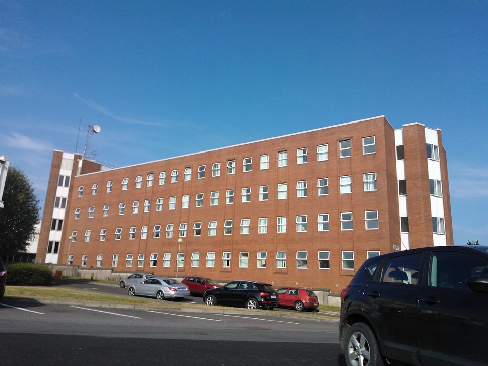 Taken in July 2013.